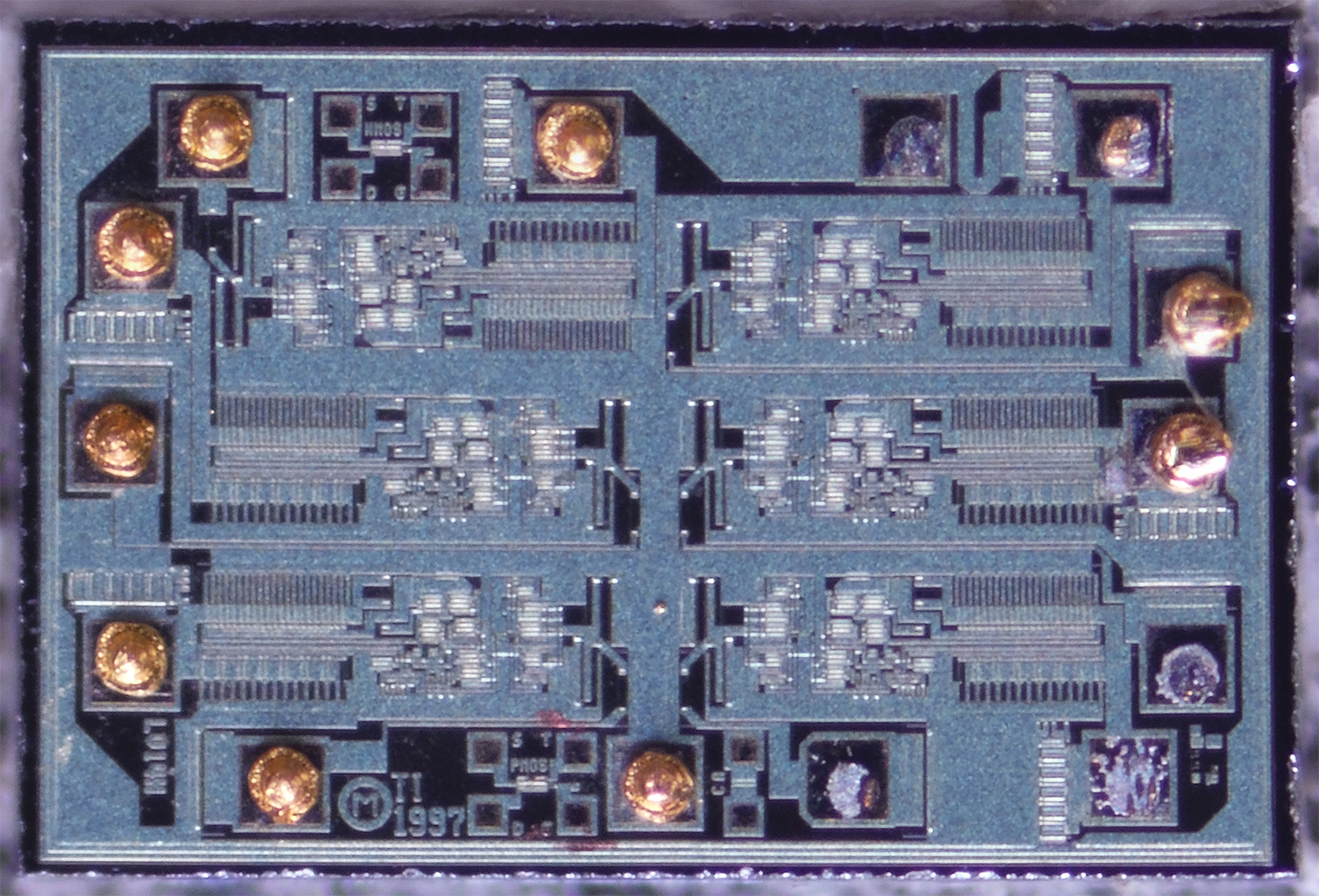 74LV14A die